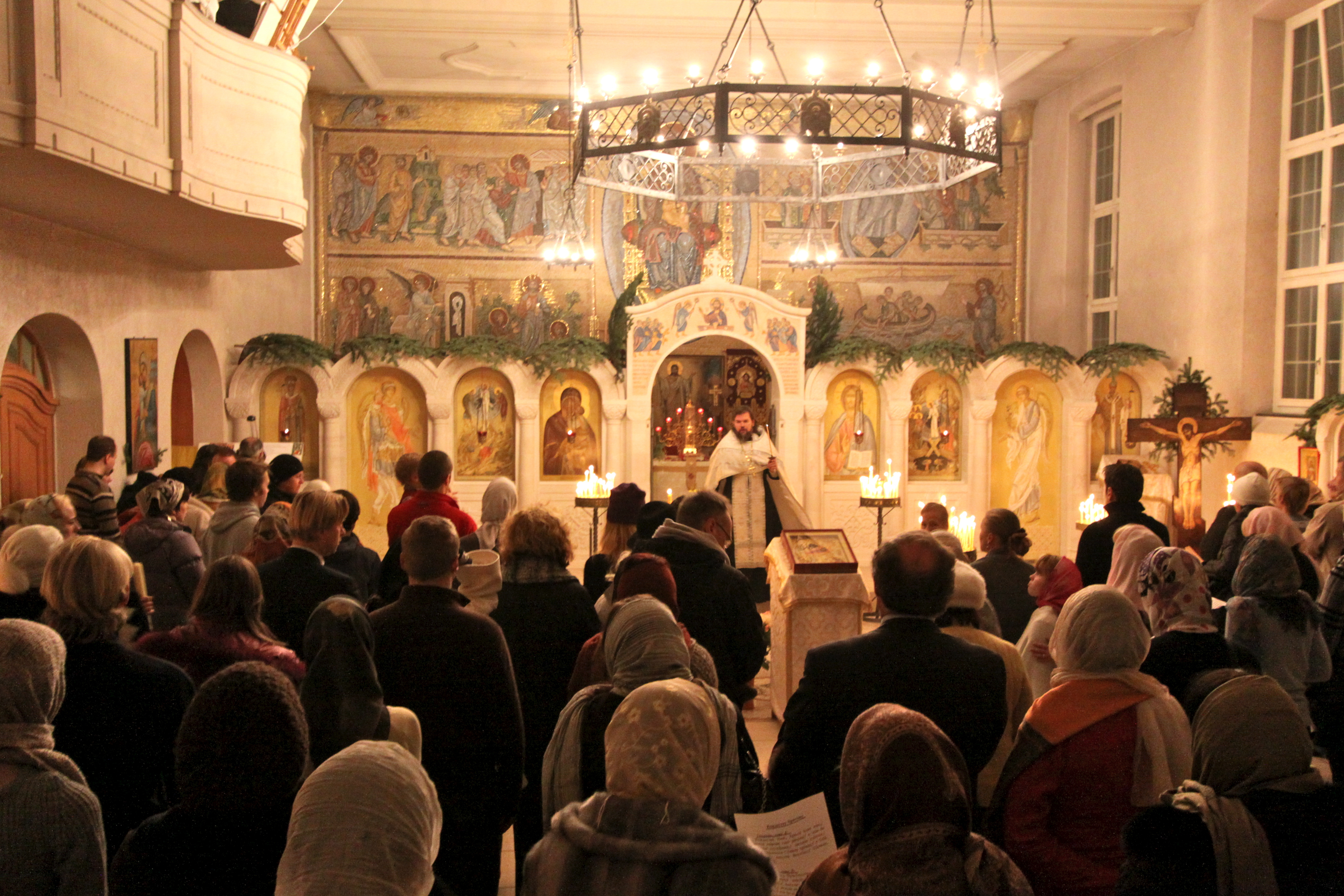 Zuerich, CHE, 06.01.2010: Weihnachtsmesse in der Russisch-orthodoxen Auferstehungskirche in Zuerich. [ (c) Juerg Vollmer / , Postfach 5093, 8045 Zuerich, fon: +41 44 586 11 43, ; You are free to copy, distribute and transmit the foto free of charge with attribute by the author and . ; ArchivNr.: IMG_5276 ; ]